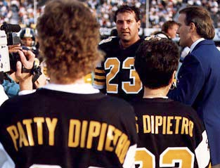 Rocky Dipietro - Hamilton Tiger-Cats - Photographed in 1989 by Mike F. Campbell during an onfield ceremony following his breaking the all-time receptions record.